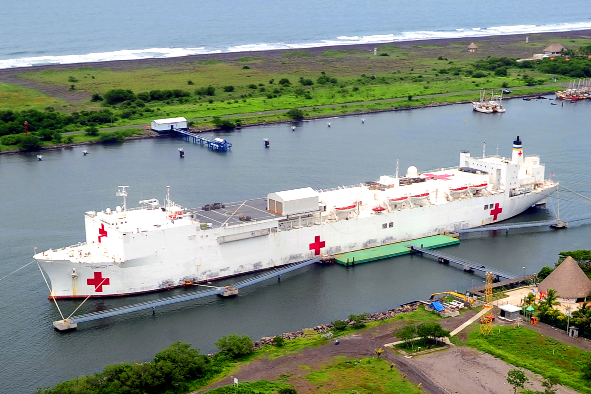 The hospital ship USNS Comfort sits pierside during a Continuing Promise 2011 mission to Puerto San Jose, Guatemala, June 30, 2011. Continuing Promise is a five-month humanitarian assistance mission to countries in the Caribbean, Central and South America.